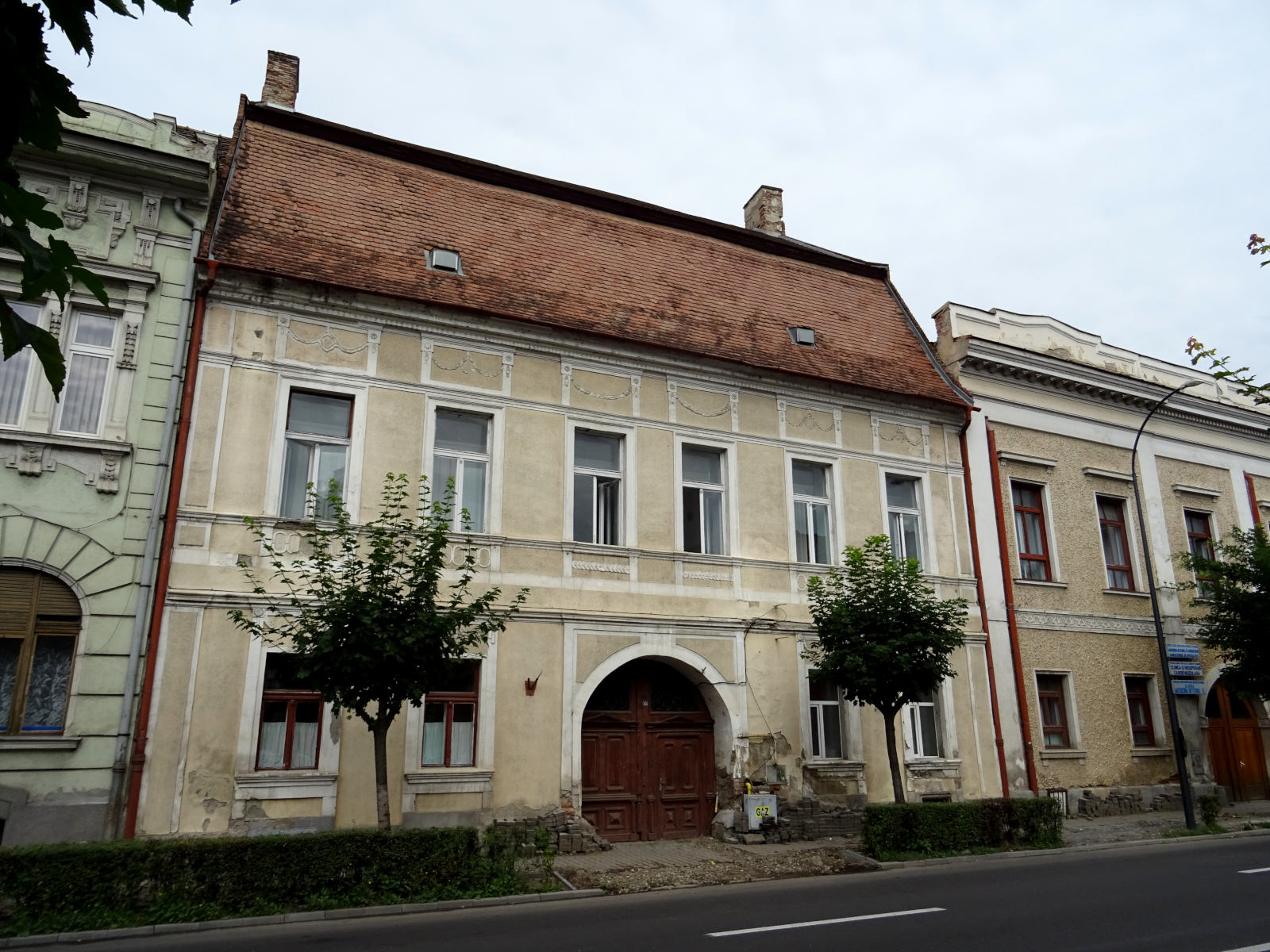 Revoluției street, house number 33 (Petky house)